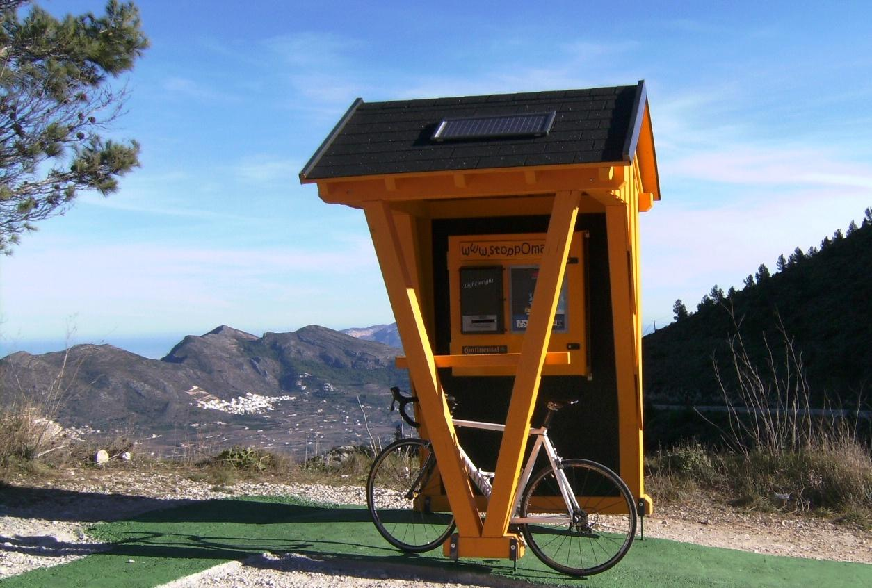 The pictures shows the plant on the Coll de Rates / Spain